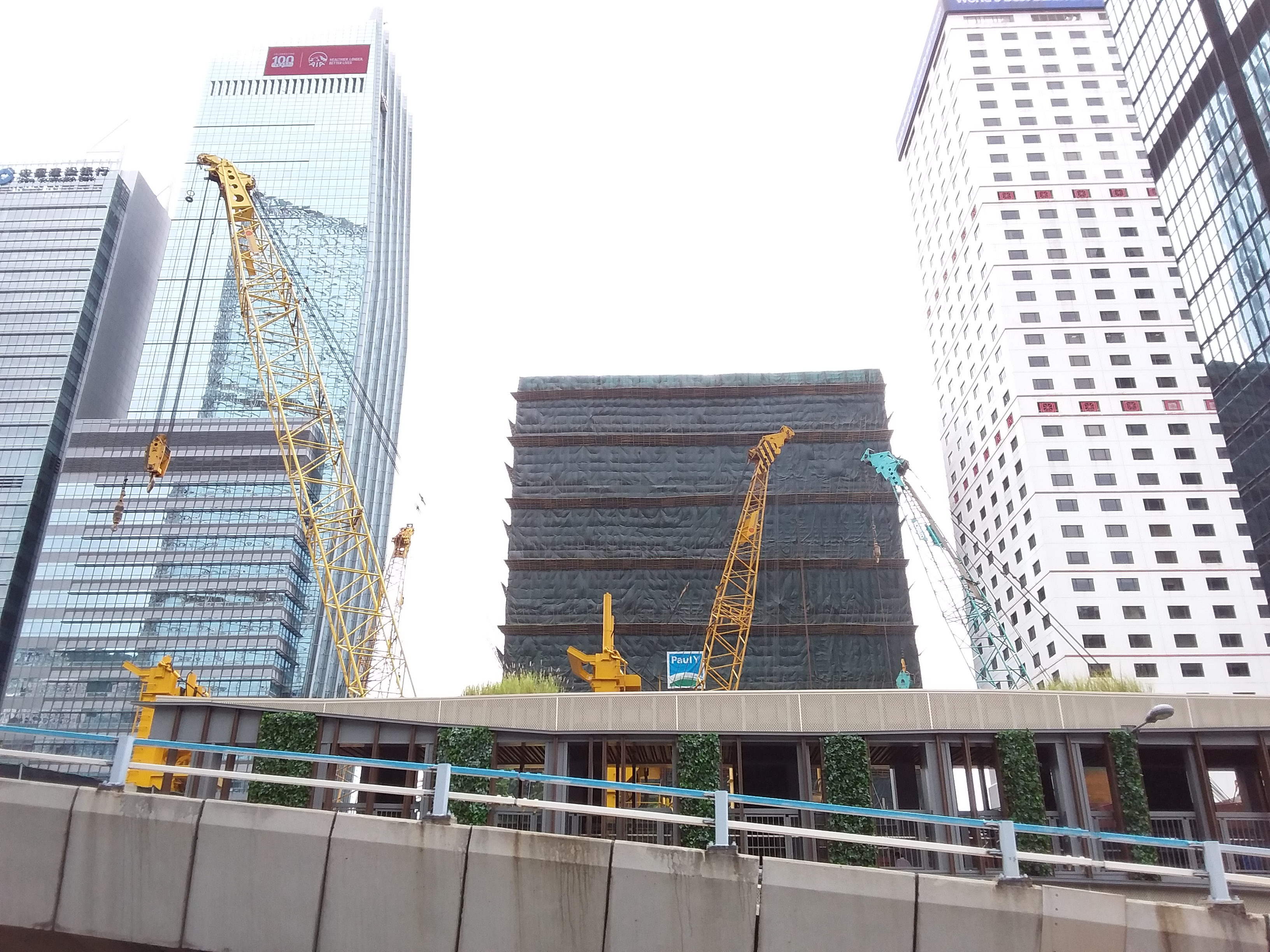 HK 香港電車遊 Tram tour view 金鐘 Admiralty Queensway 周日早晨 Sunday morning in June 2019